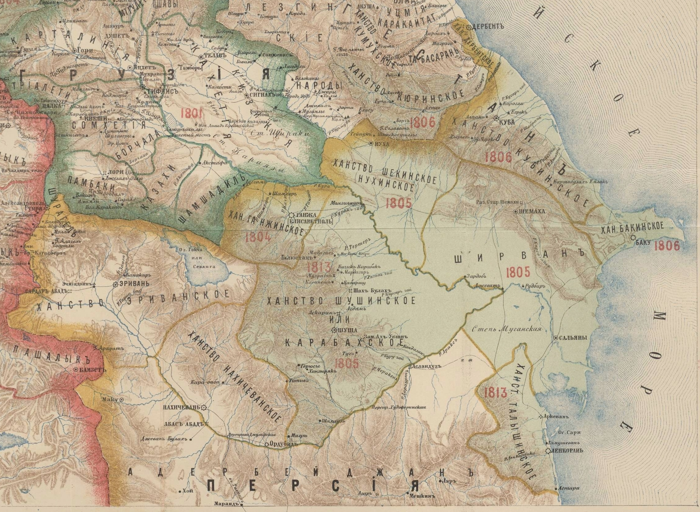 Khanates of the South Caucasus